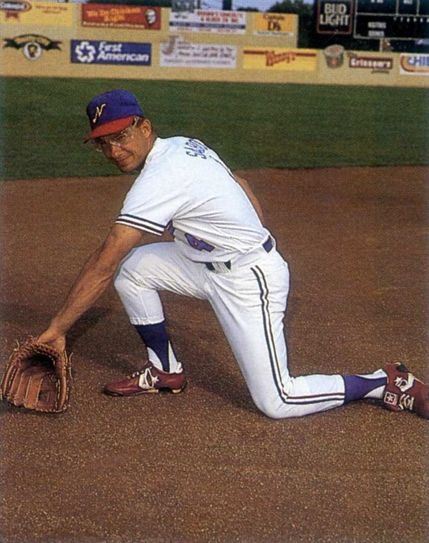 Third baseman Chris Sabo of the 1987 Nashville Sounds Minor League Baseball team of the American Association